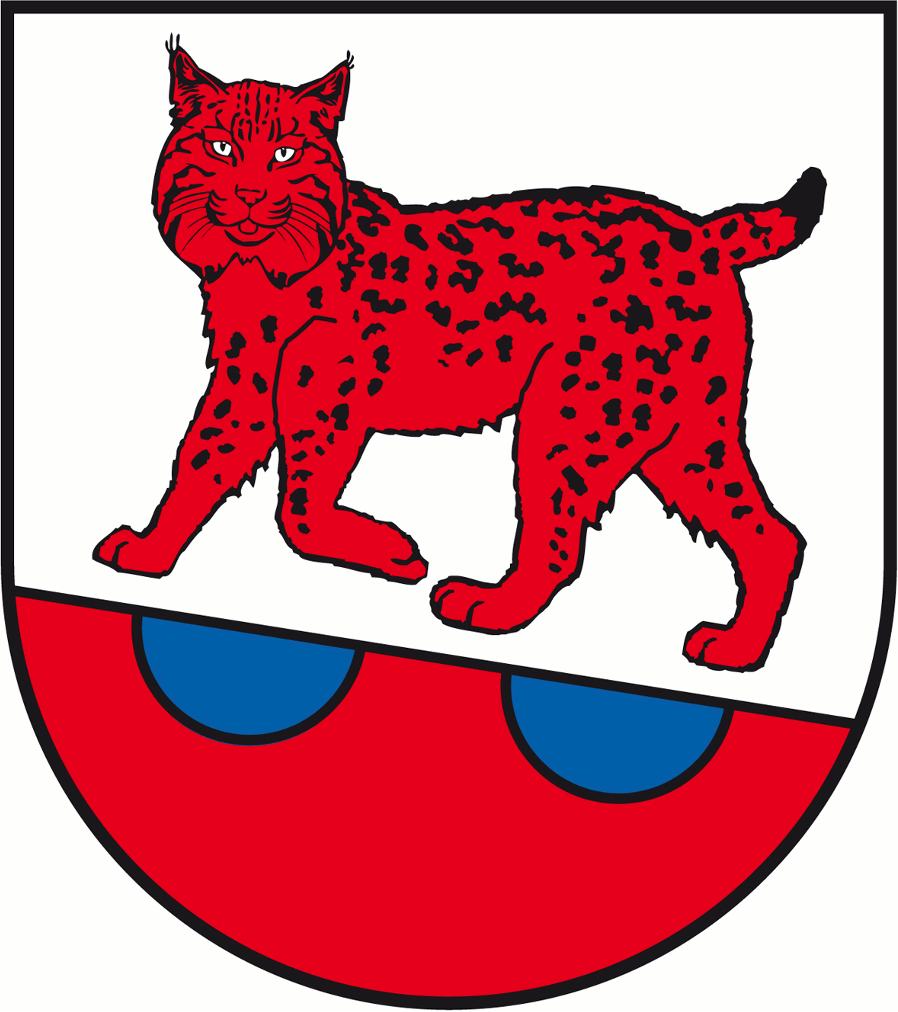 Coat of arms of Retzow (Havelland